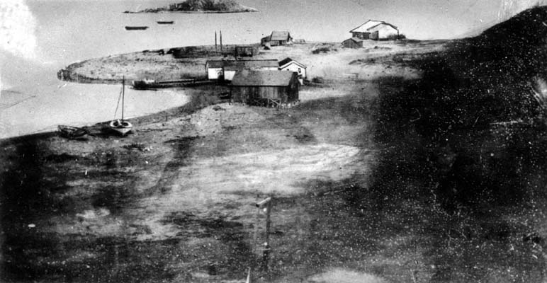 What is now the San Pedro neighborhood of Los Angeles, California in a 1850 daguerreotype. The old landmark, Deadman's Island is in the background (it was removed in the 1920s to expand the harbor).